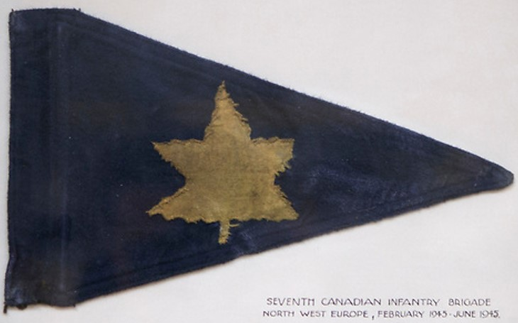 Jeep pennant Brigadier TG Gibson